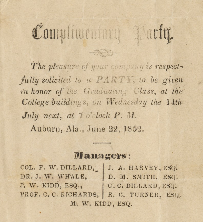 Auburn Female College graduation party invitation, 1852. Published by the Auburn Gazette.